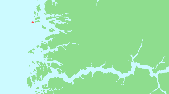 Locator map of Kinn, Sogn og Fjordane, Norway